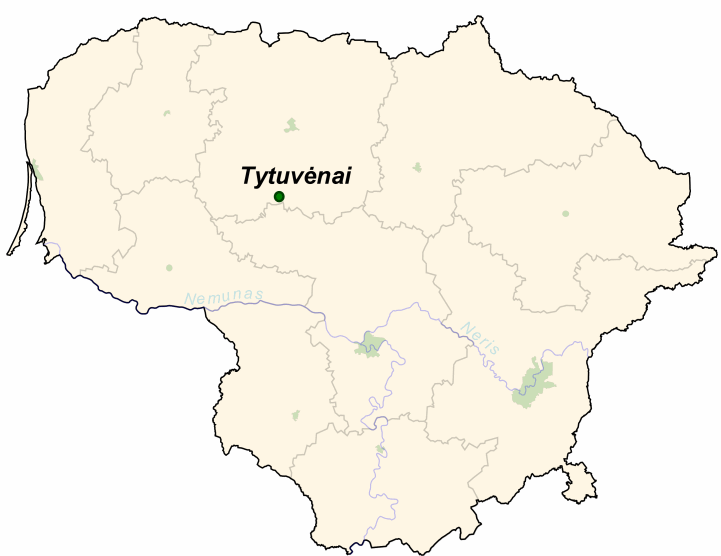 Tytuvėnai on the map of Lithuania